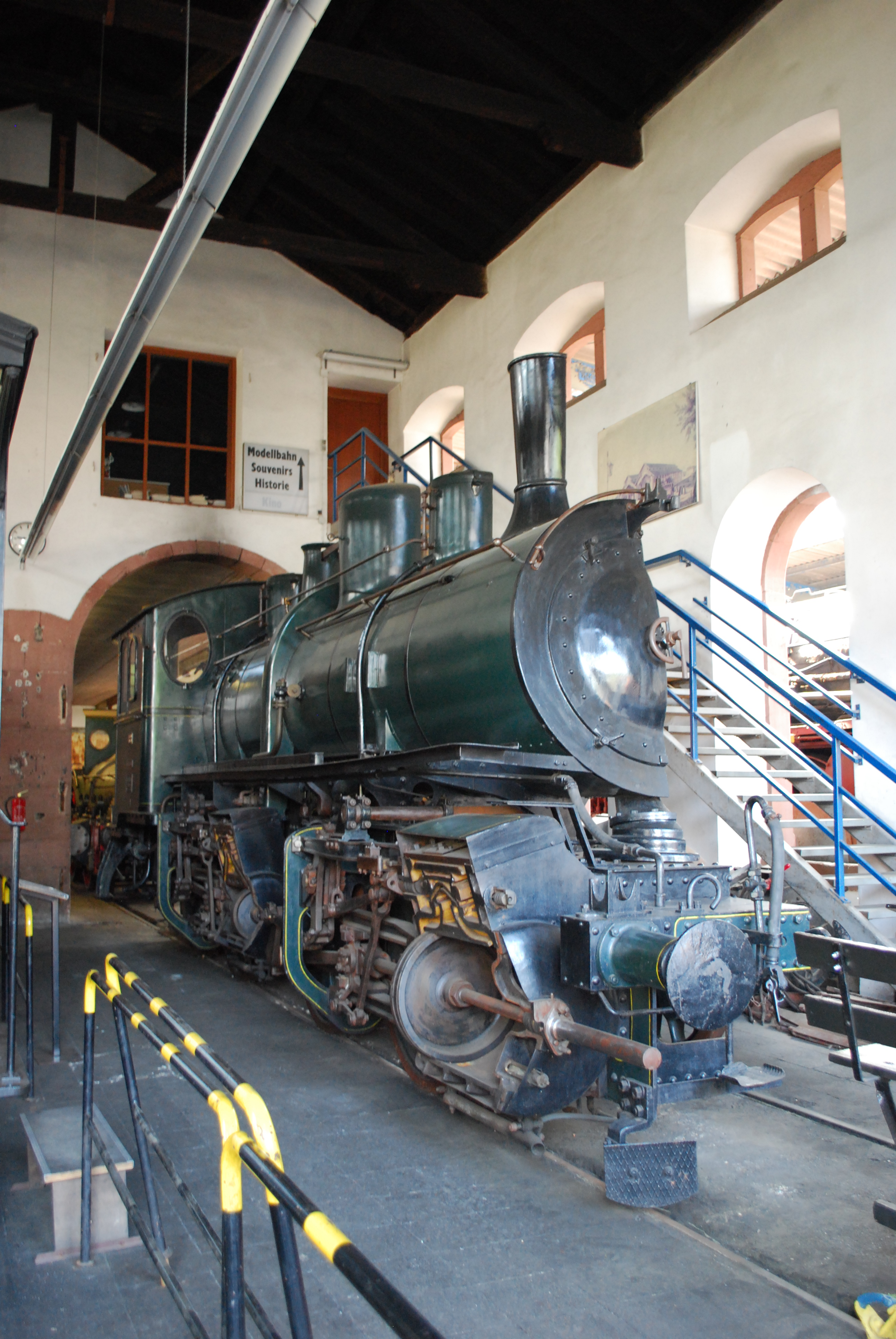 Sectioned Bavarian Class BBI (DRG Class 98.7) 0-4+4-0T Mallet compound No.2100 "Torso" (DRG Class 98 727) built in 1896. Neustadt-Weinstrasse Eisenbahn Museum, 6/11.